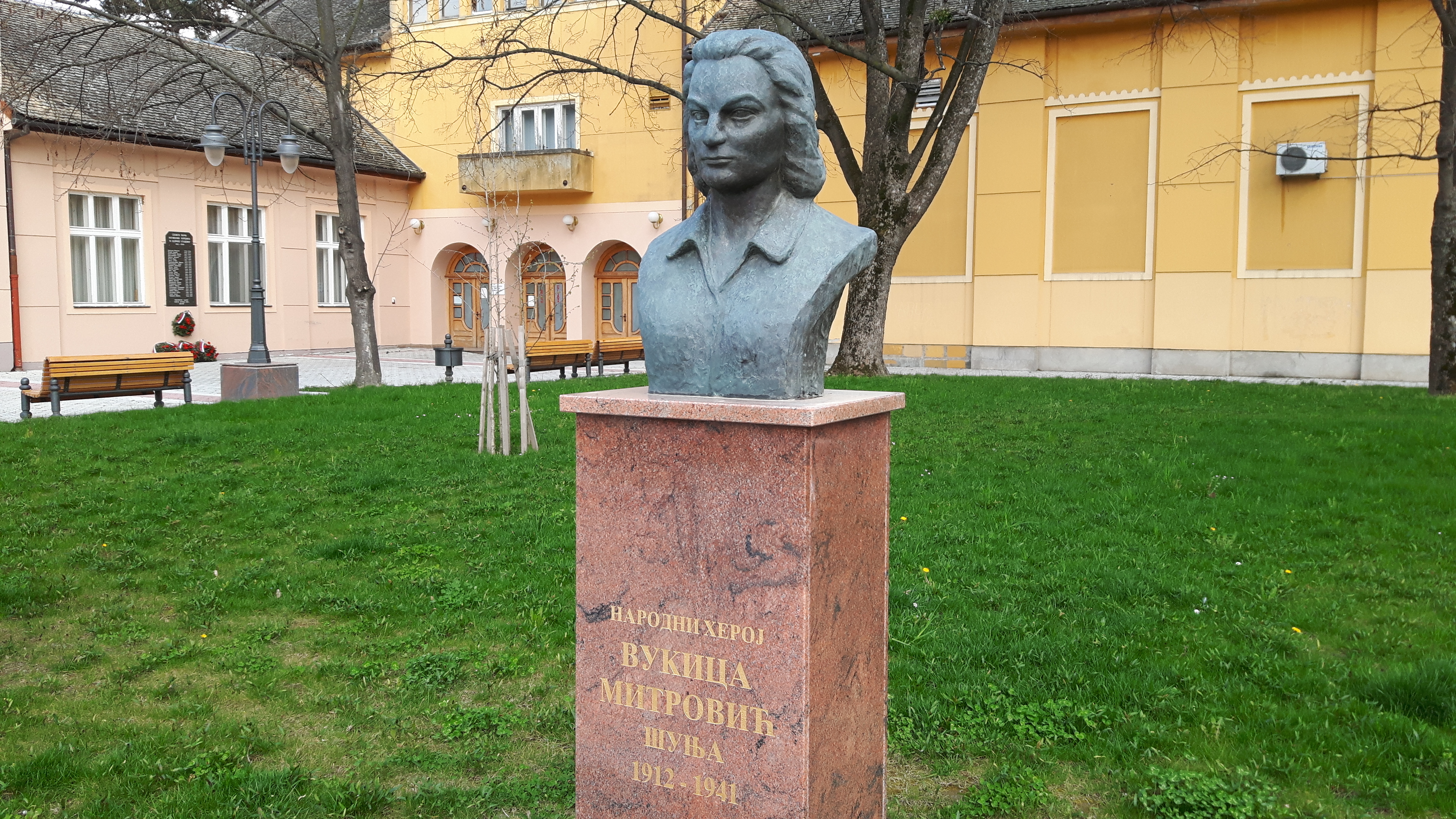 Bust of the People's hero of Yugoslavia, Vukica Mitrović - Šunja (1912-1941), Apatin.